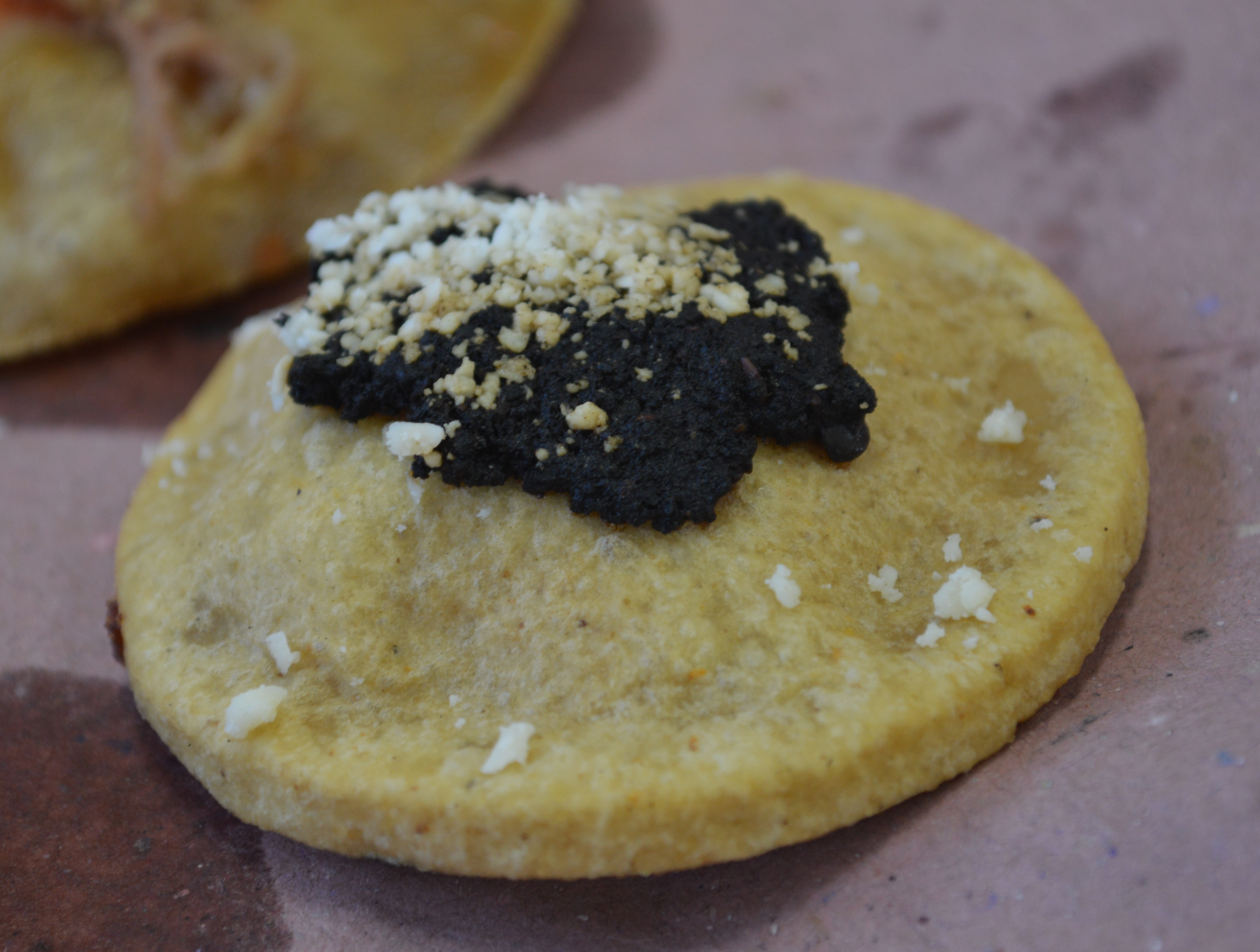 Mini bean gordita flavored with avocado leaf Veracruz style served at the El Bajió restaurant in Azcapotzalco, Mexico City